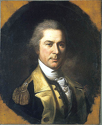 Museum portrait of Otho Holland Williams (1749–94): The museum portrait appears to be a copy of a similar portrait (destroyed in 1977) painted for the Williams family. The museum replica lacks both the life portrait's background material (a classical temple labeled "MARS," which represents the Williams' military prowess) and a Society of the Cincinnati eagle medal. Peale also changed the color of Williams's stock (neckcloth) from black (in the life portrait) to white (in the replica).